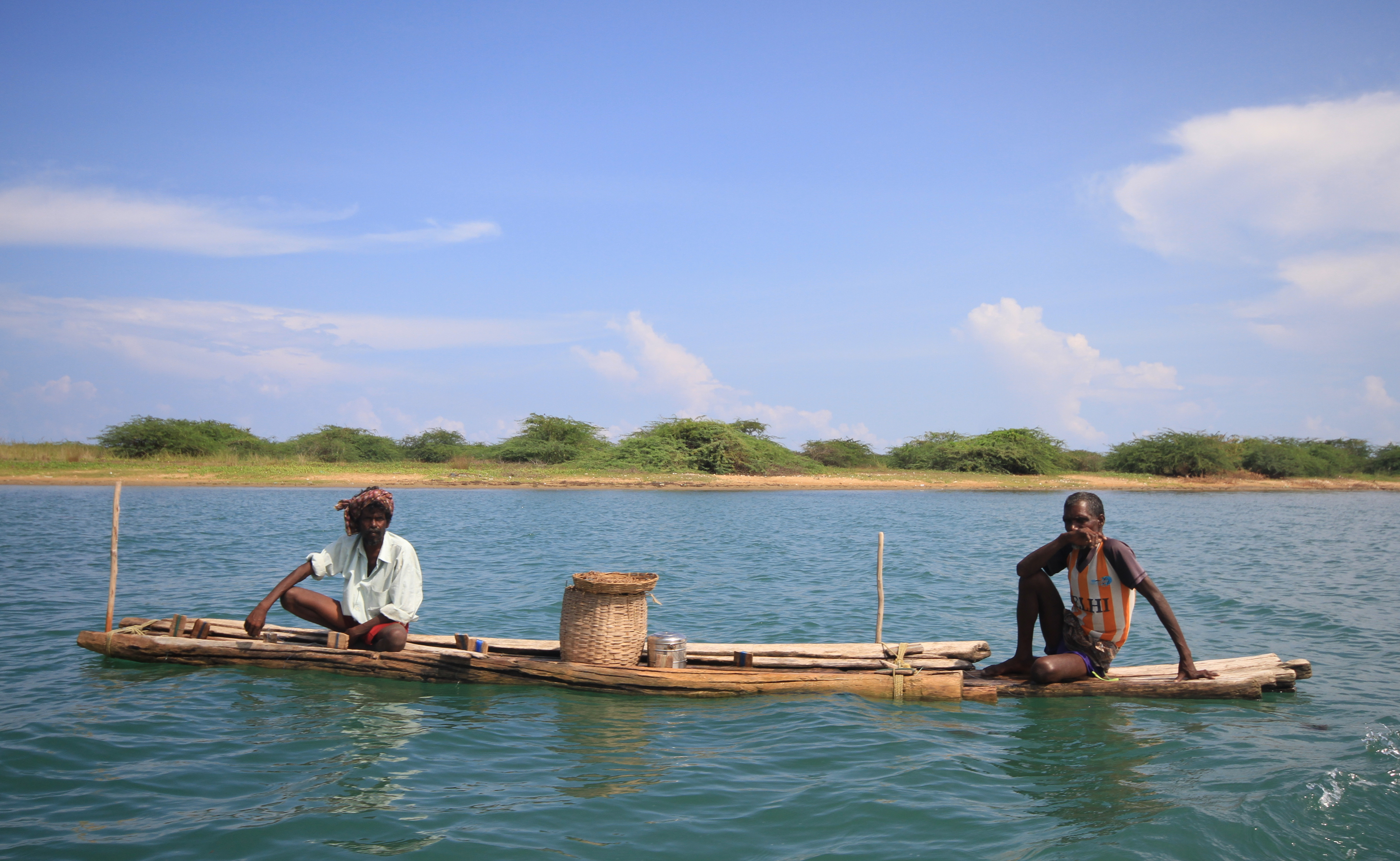 This image shows a classical-style Catamaran (கட்டுமரம்) built by tying few logs of wood together. These simple and old types of Catamarans are still used by some fishermen in South India. This image is one such example, captured on 23rd October 2011 at Pulicat Lake, Tamil Nadu, India.